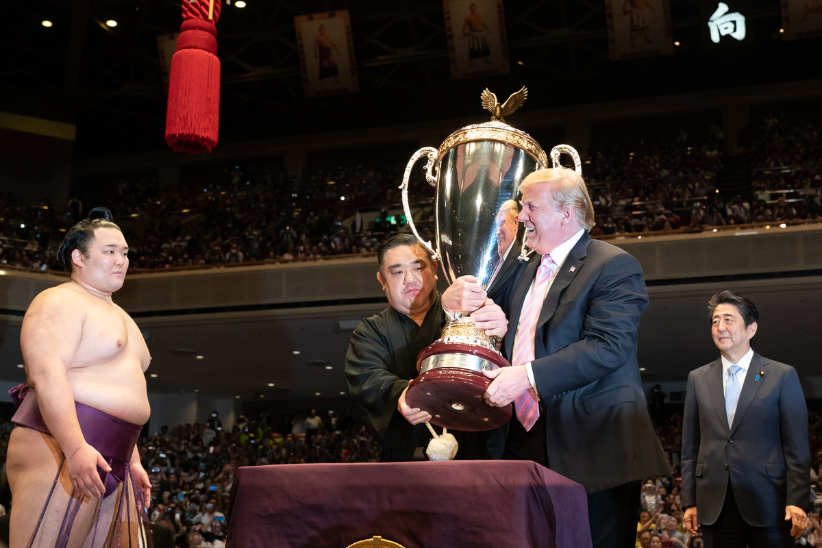 President Donald J. Trump, joined by Japan Prime Minister Shinzo Abe, attends the Sumo Grand Championship and participates Sunday, May 27, 2019, in the presentation of trophies at the cultural event at the Ryōgoku Kokugikan Stadium in Tokyo. (Official White House Photo by Andrea Hanks)